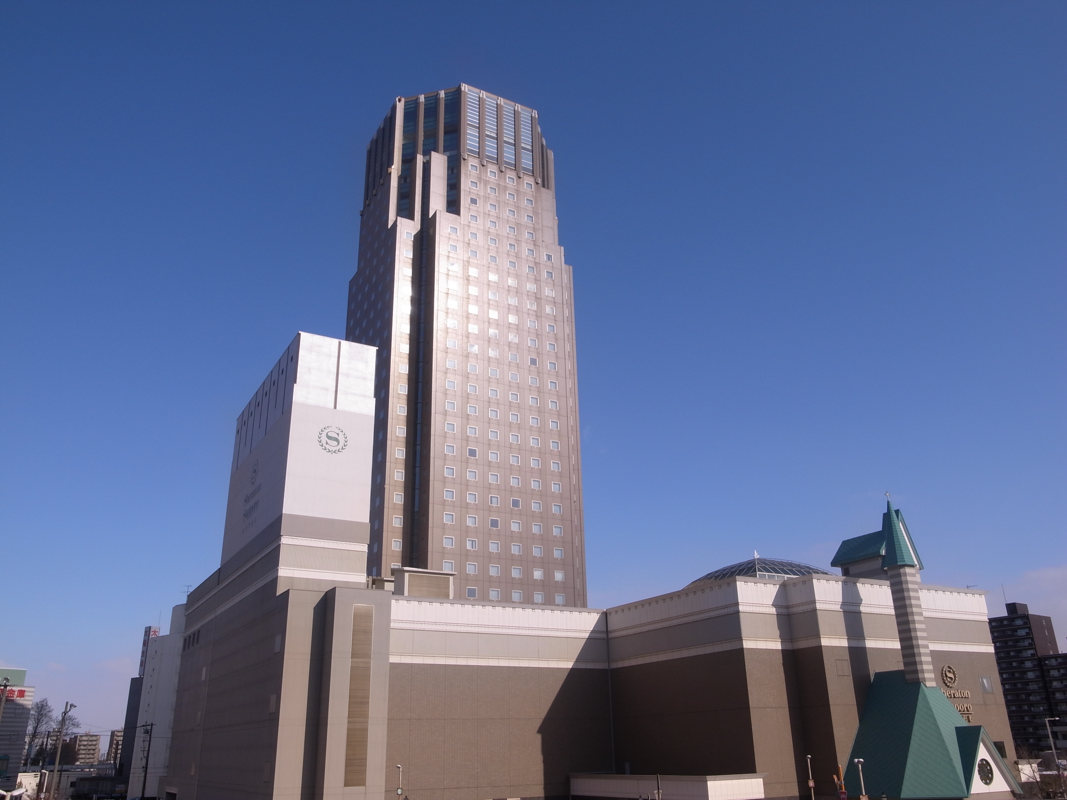 Sheraton Sapporo Hotel